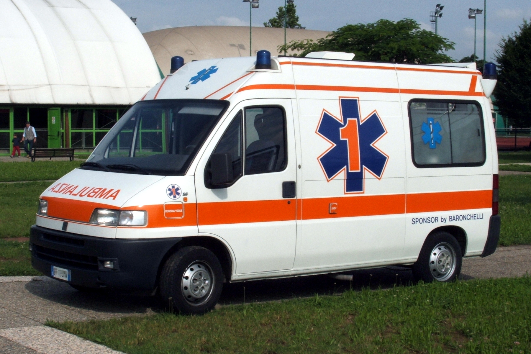 Ambulance in Italy - FIAT Ducato, with "AMBULANZA" in mirror writing ("AZNALUBMA")